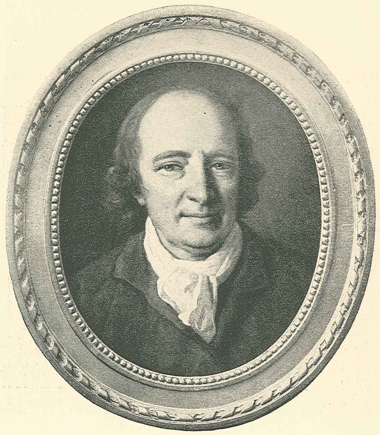 Writer Carl Christoffer Gjörwell Sr. (1731-1811) as painted by Per Krafft the Elder.